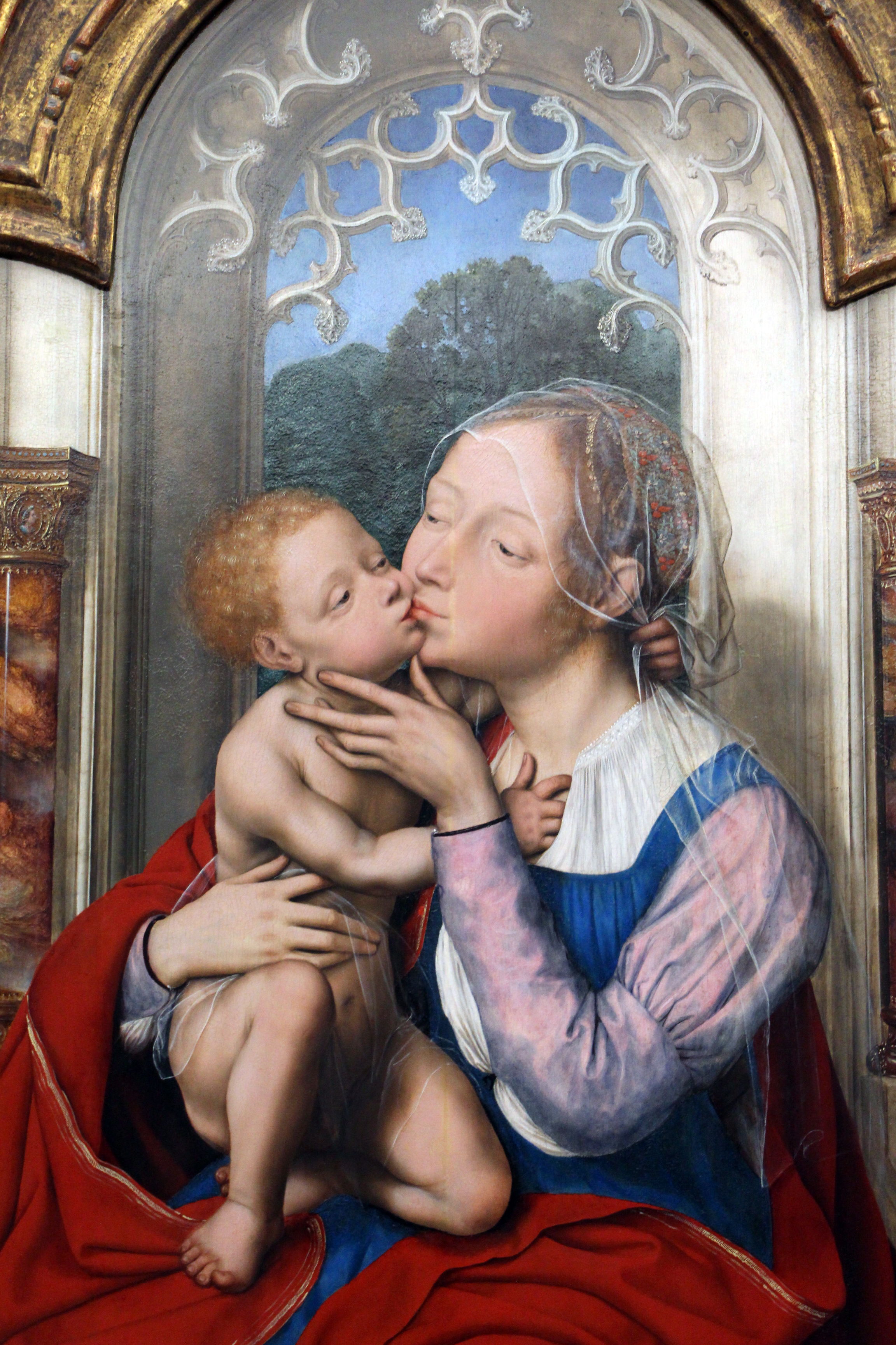 Flemish and Dutch Renaissance paintings in the Gemäldegalerie, Berlin